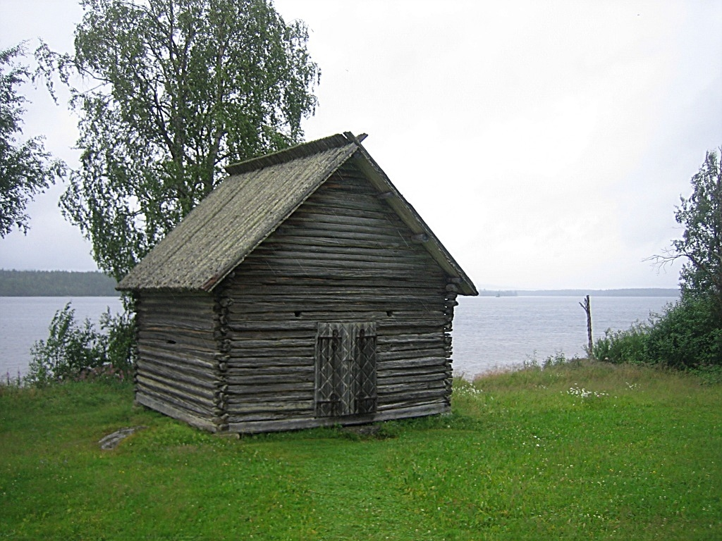 Bodda prayerhouse in Bodsjö, Jämtland, Sweden